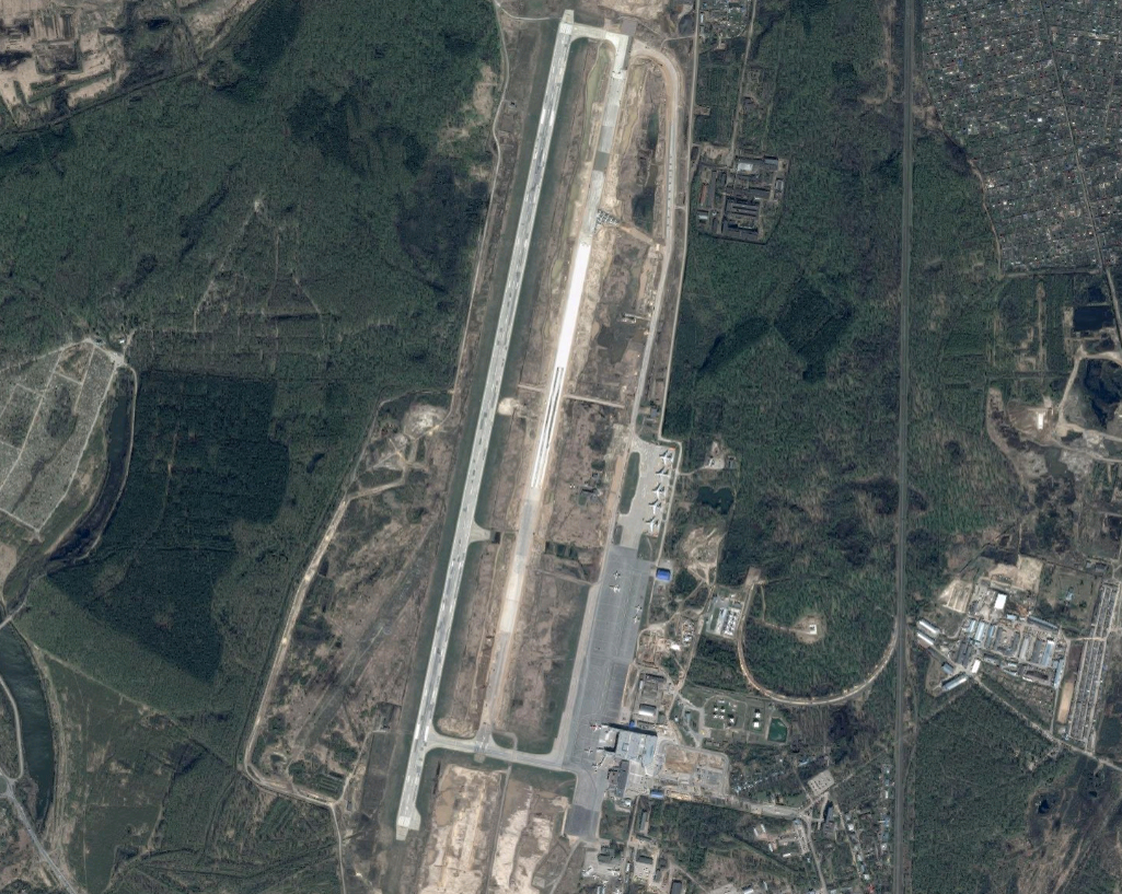 Nizhny Novgorod/Strigino airfield, former Soviet Union. Image from NASA World Wind.